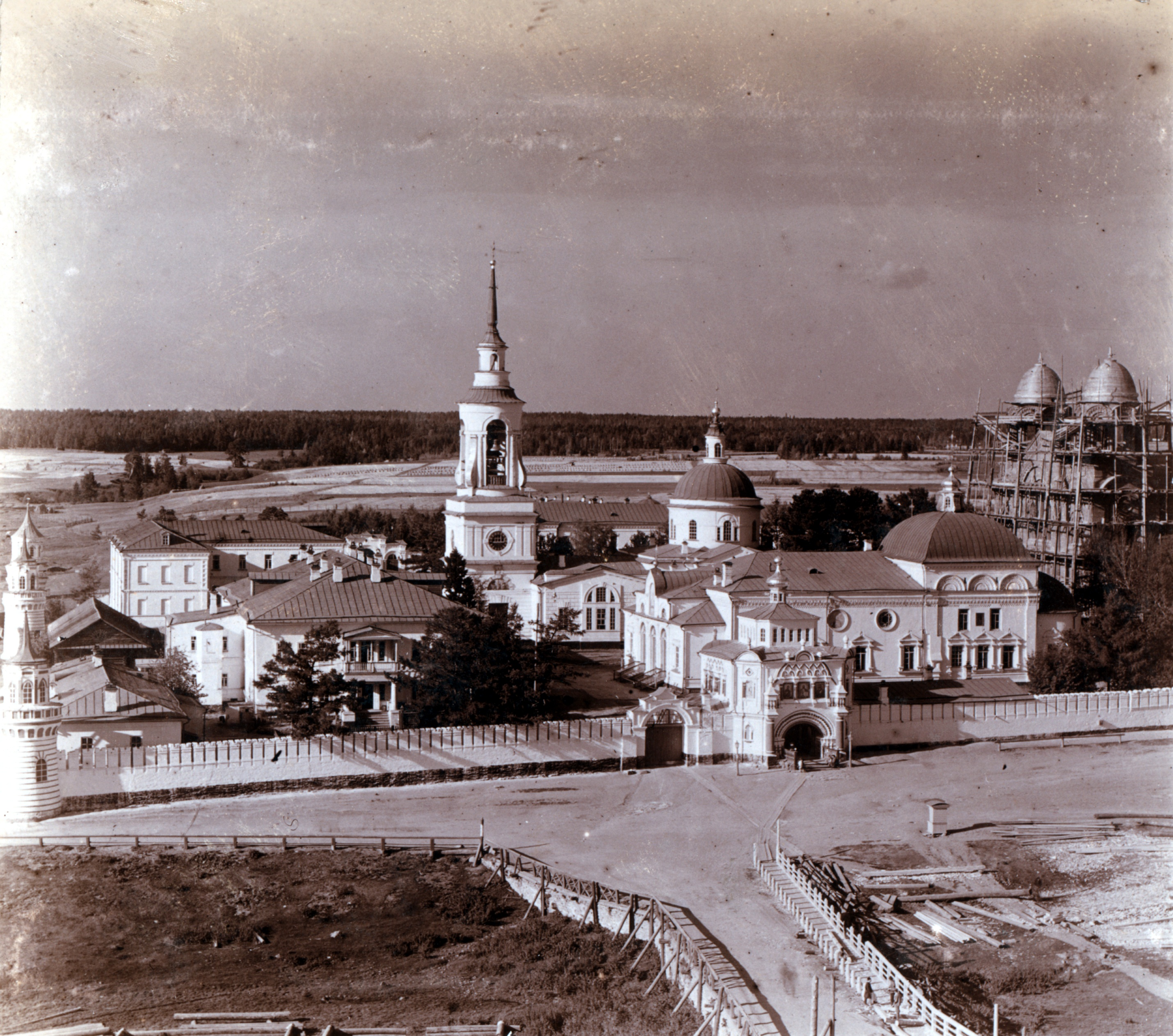 View of the Verkhoturskii Monastery. [Verkhoture]